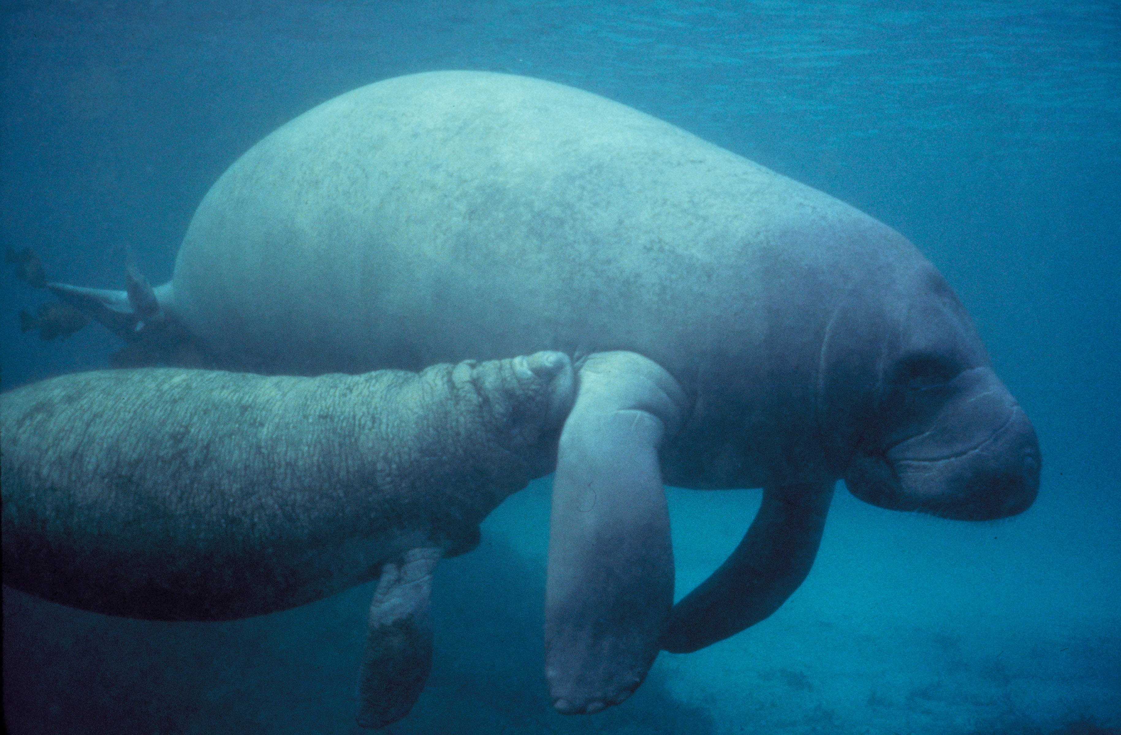 A manatee and her calf. West Indian Manatee, an endangered aquatic mammal of Puerto Rico.